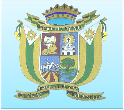 Escudo del Carmen de Apicalá